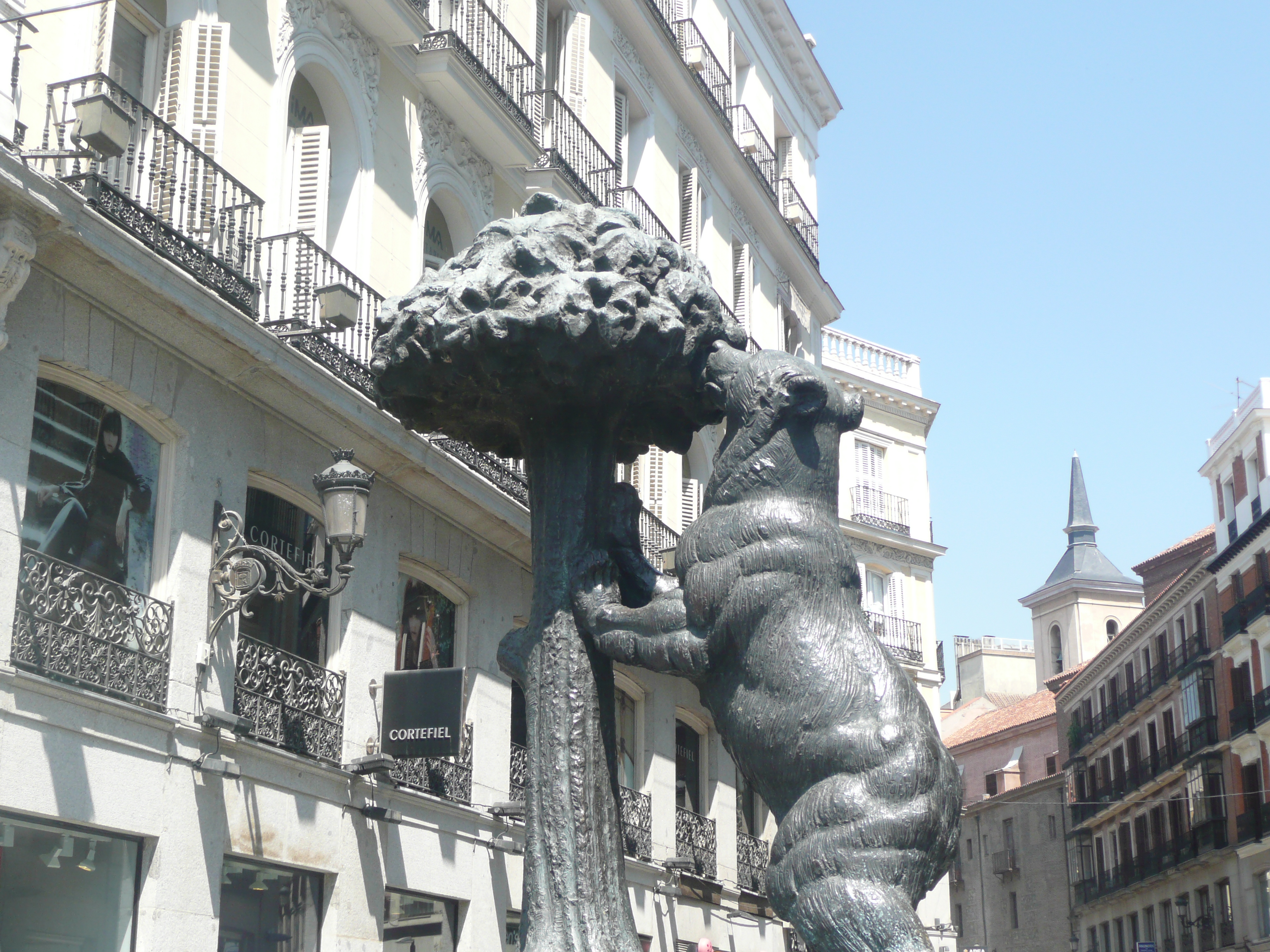 Sculpture "Bear and the Madrono Tree" at Puerta del Sol, Madrid